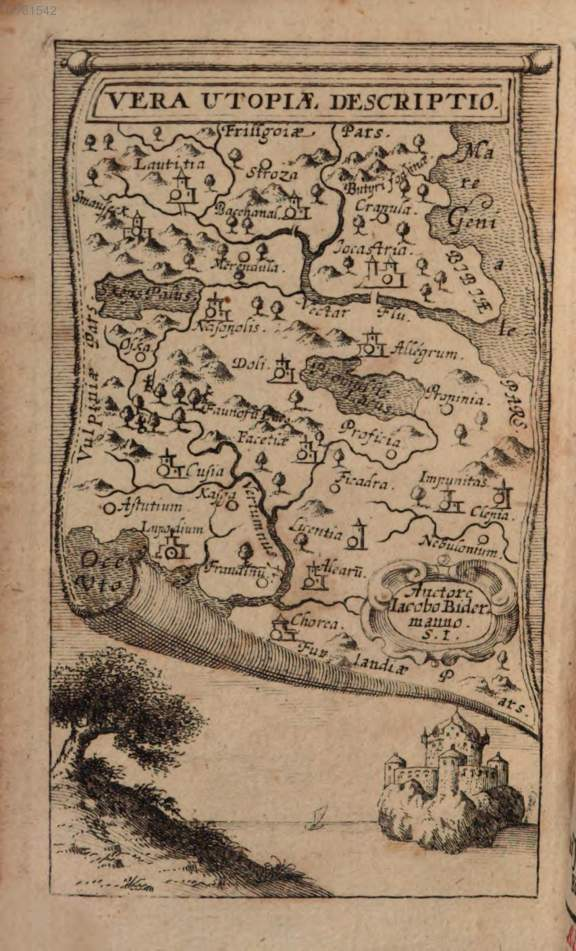 This map "Vera Utopiæ Descriptio" designed by an Unknown author was engraved for the book "Utopia Didaci Bemardini" written by Jakob Bidermann (It only appears in edition printed since 1670)